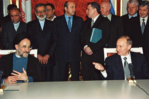 THE GRAND KREMLIN PALACE, MOSCOW. President Putin and his visiting Iranian counterpart, Mohammad Khatami, sum up their talks at a joint press conference.